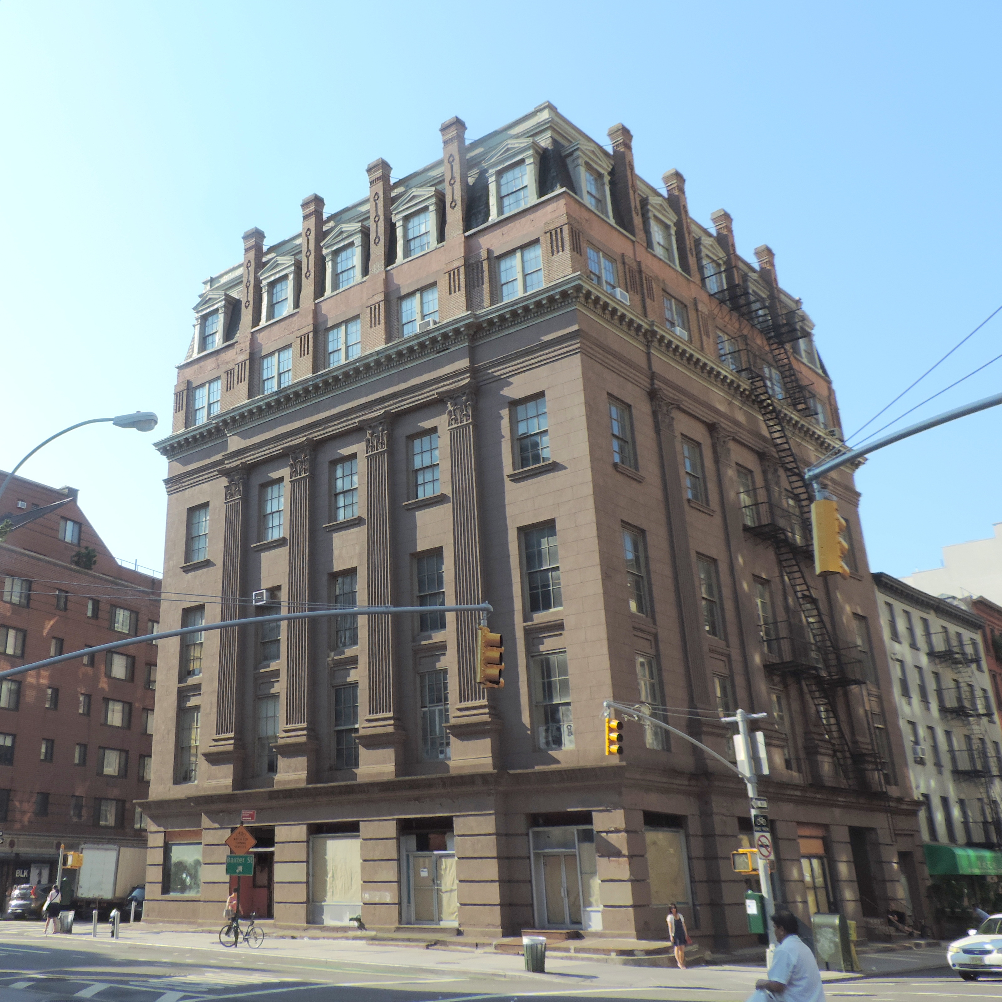 Looking south on a sunny morning.